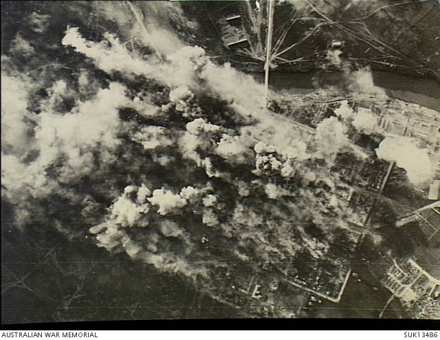 Strike photograph of the daylight attack by Liberator, Wellington and Halifax aircraft of the RAF on the Yugoslav town of Podgorica. German escort vehicles with troops escaping from Greece, were waiting in this town till darkness fell before fleeing northwards.